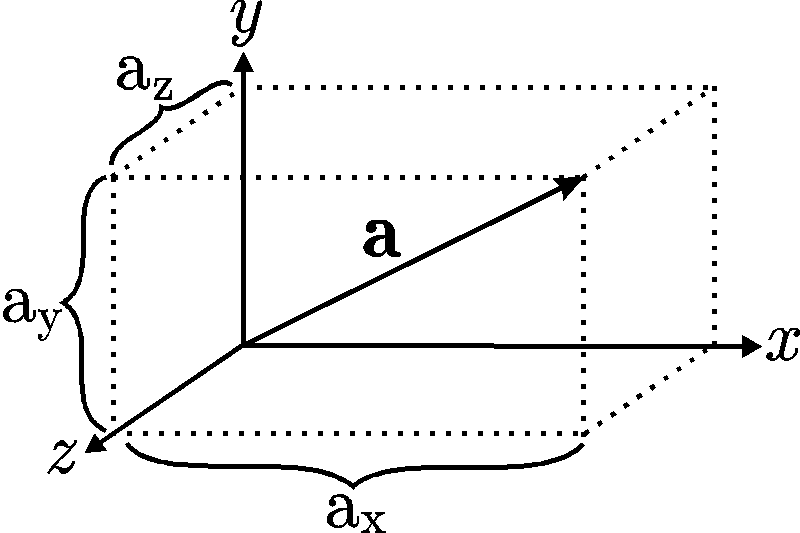 components of a spatial vector